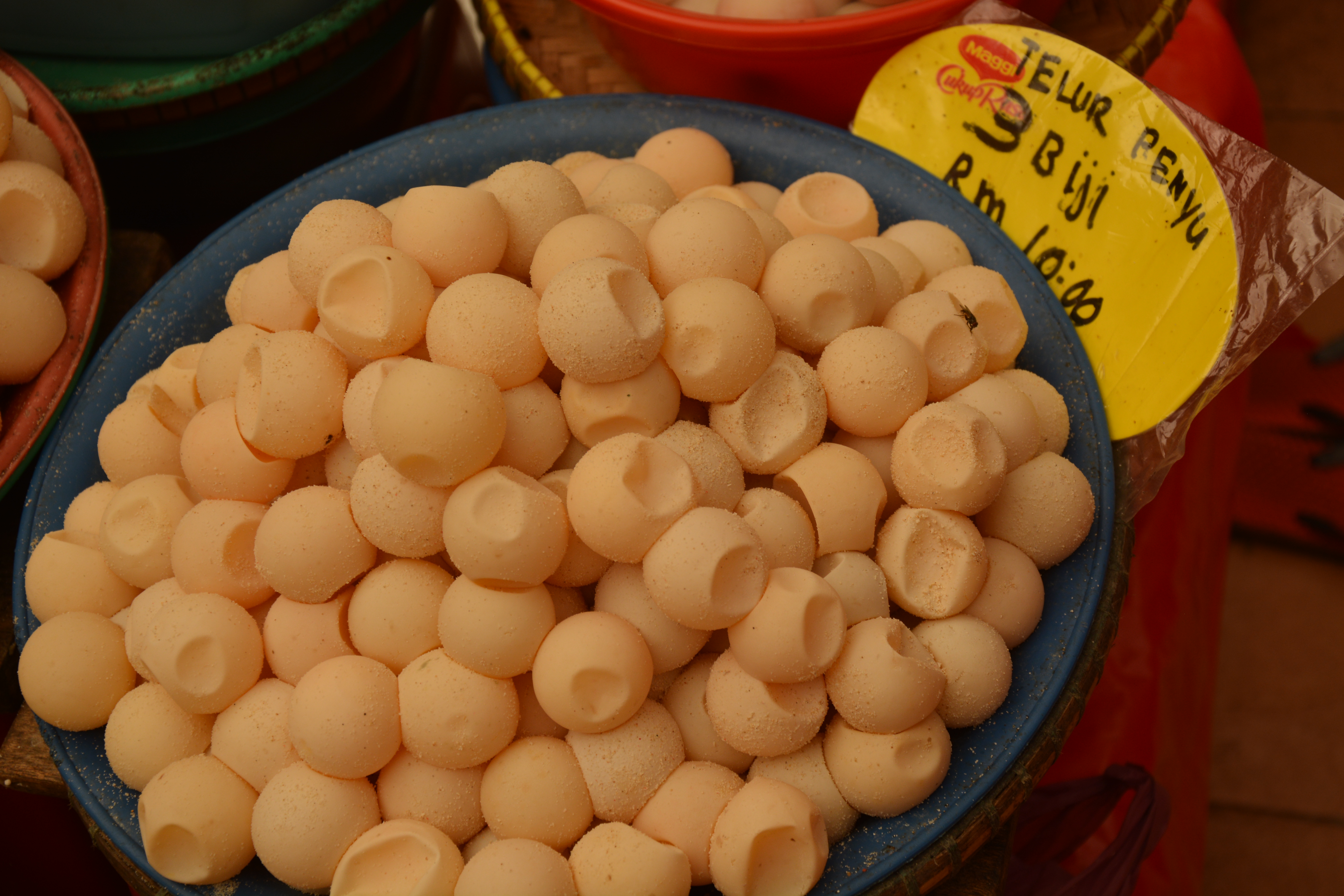 Turtle eggs for sale at Kota Bharu market